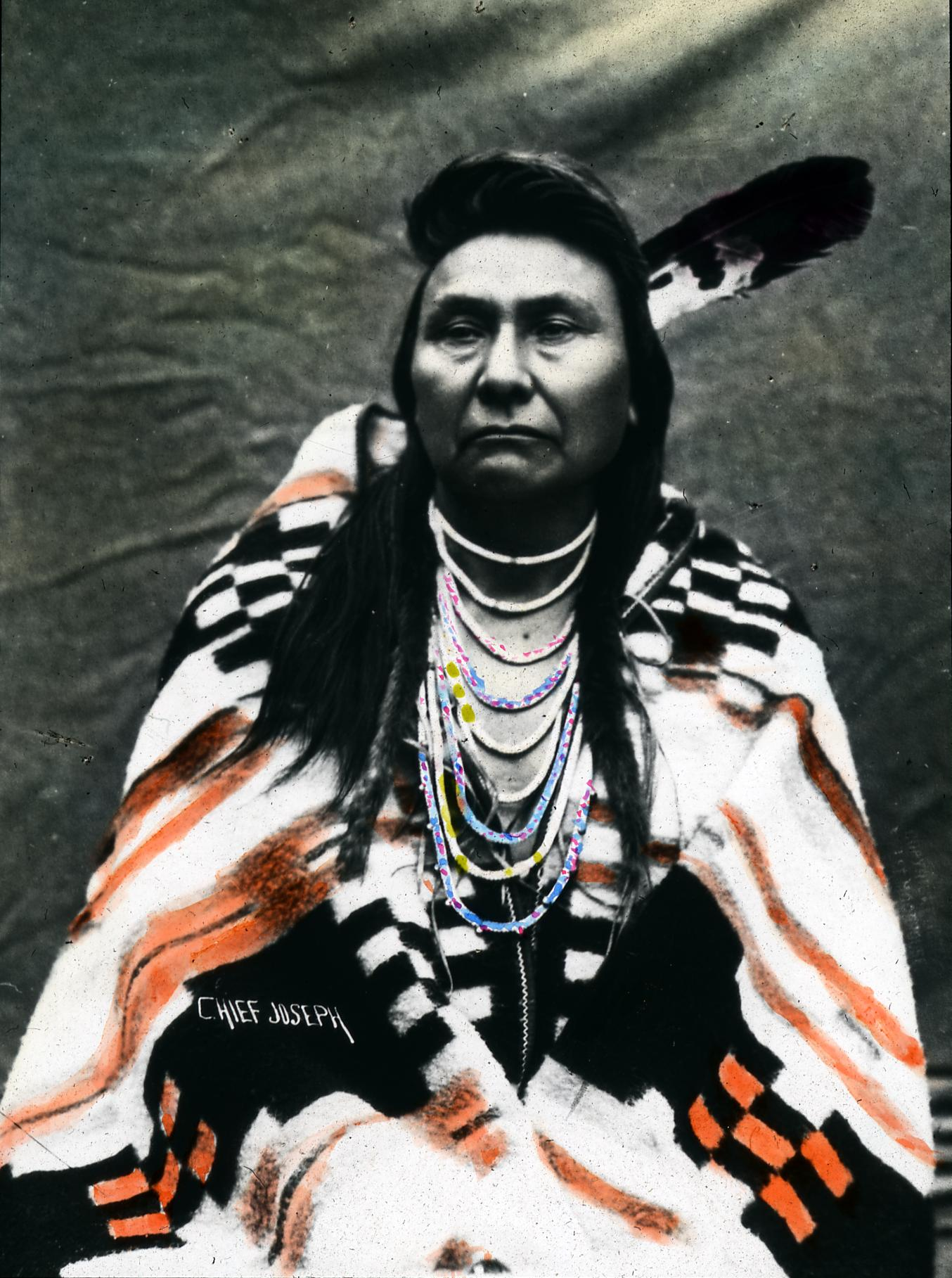 Image Title: Chief Joseph Description/Notes: Early settlement of Oregon. Chief Joseph was the leader of the Nez Perces tribe. He is famous among Americans for his leadership of his tribe in the Nez Perces War. He died 21 September 1904 on the Colville Indian Reservation. The state of Washington has erected a monument over his grave. Original Format: Lantern slides Original Collection: Visual Instruction Department Lantern Slides Item Number: P217: set 38 no.15